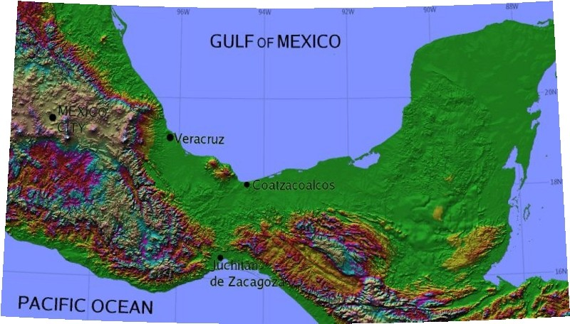 Isthumus of Tehuantepec relief map, Albers equal area conic projection